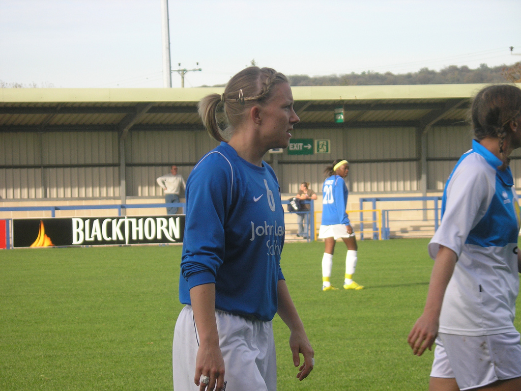 Birmingham City Ladies vs Bristol Academy, away Season 2006/07